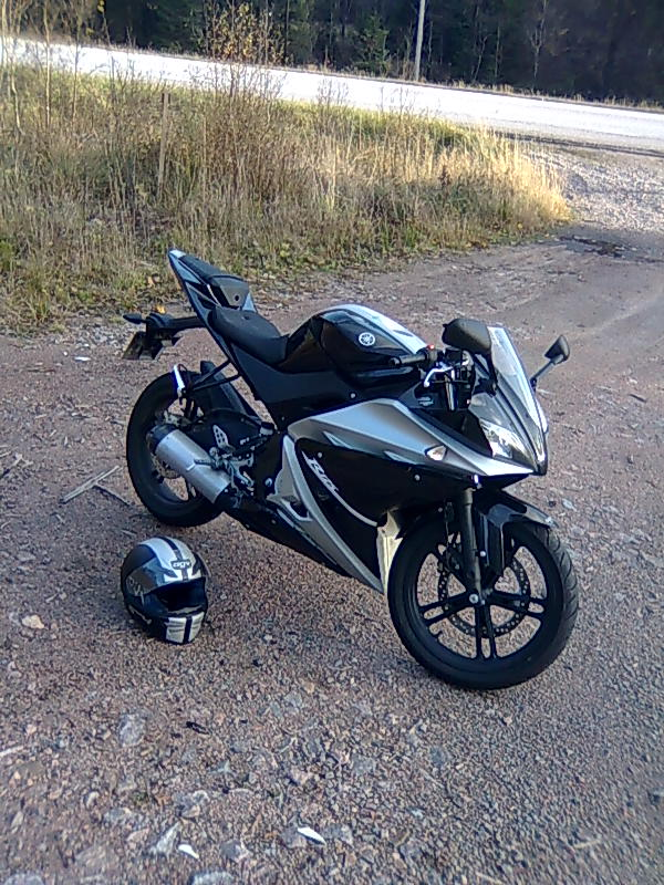 Yamaha YZF-R125, 2008 version. Midnight black color.